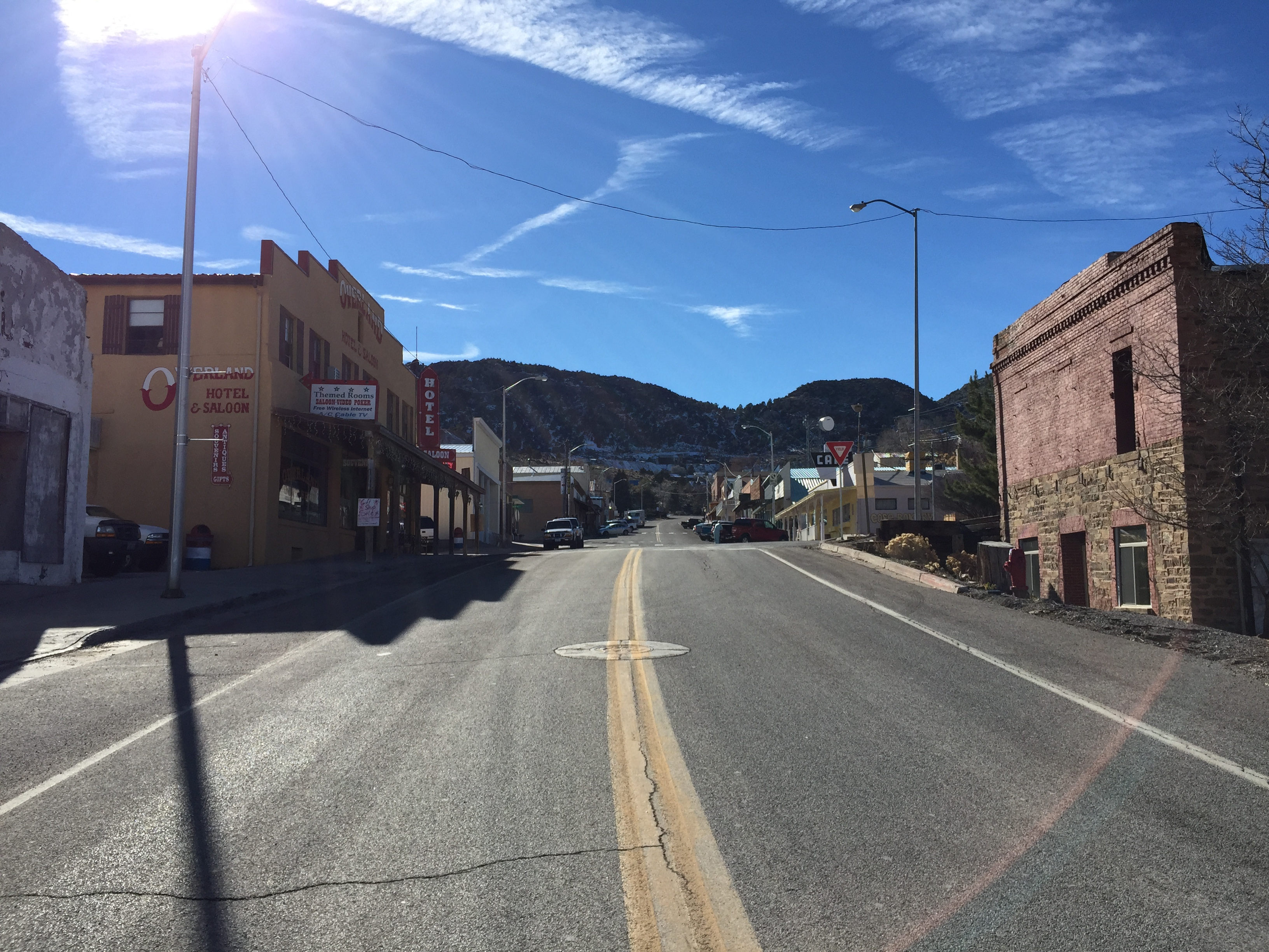 View west at the west end of Nevada State Route 322 at Nevada State Route 321 in Pioche, Nevada